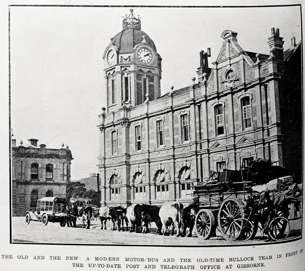 1916 motor-bus and bullock team